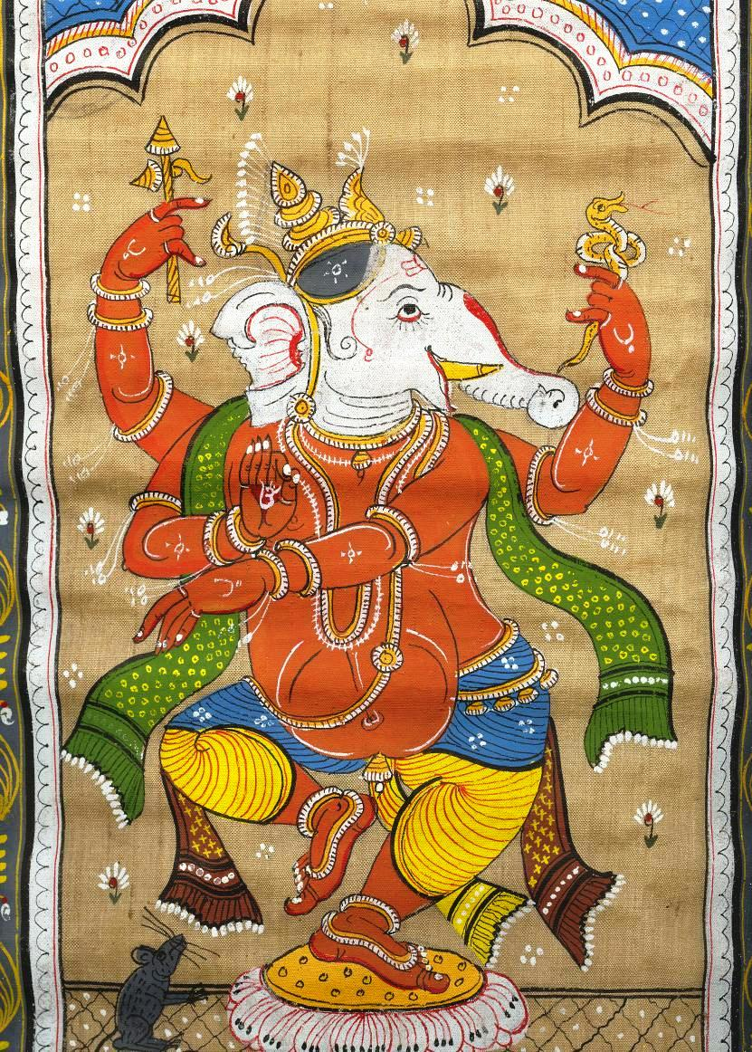 Ganesh, India